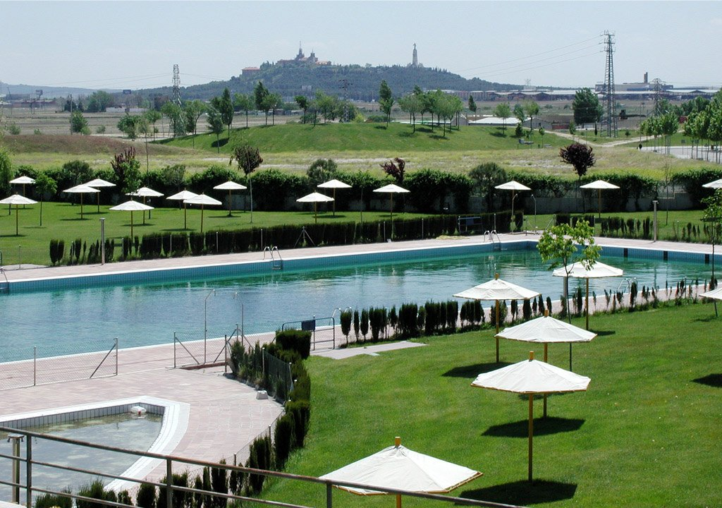 Swimming pool of Getafe, Getafe, (Madrid), Spain Author: Miguel303xm Date: June 26th, 2004